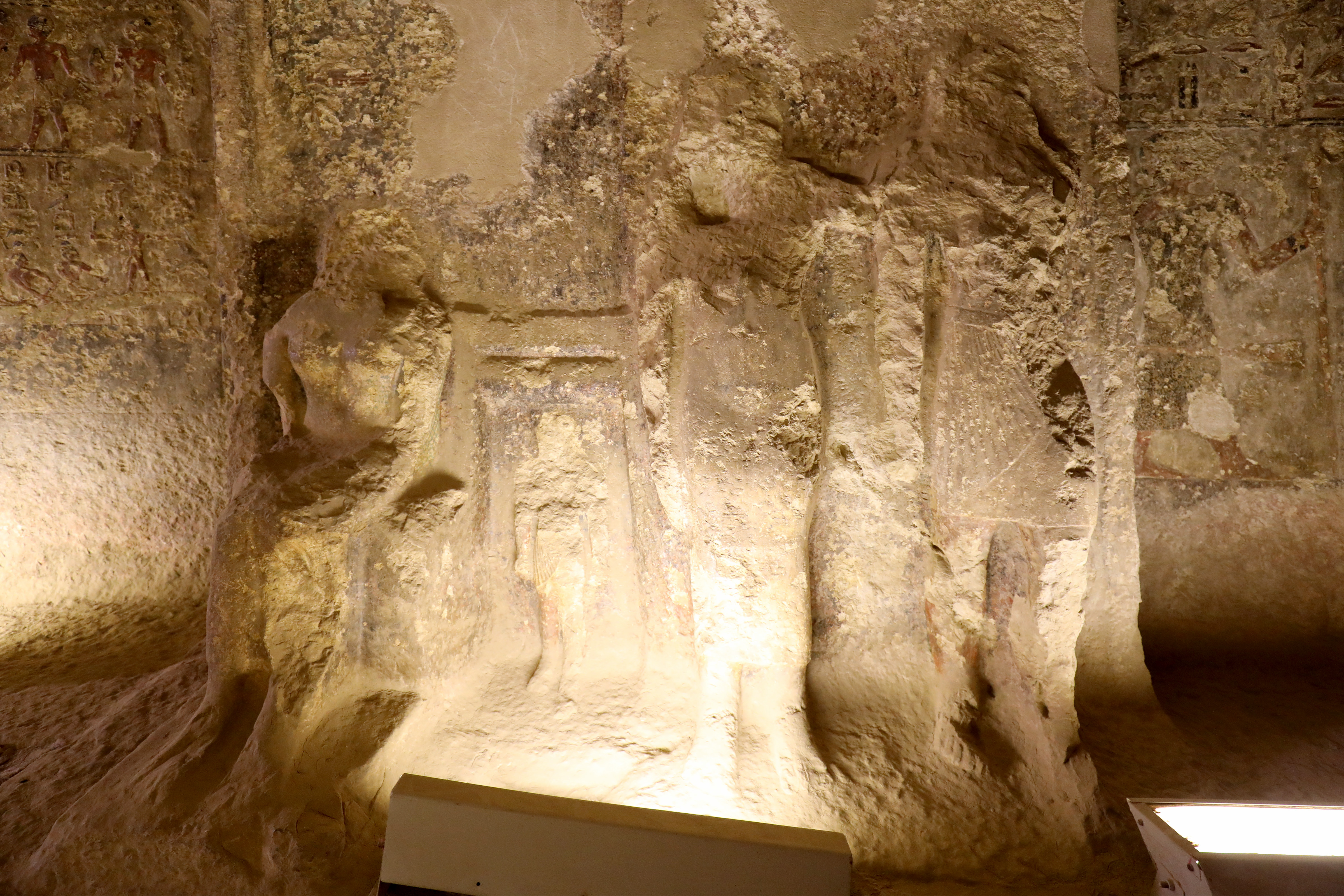 Statues of the family of Kai-khent, tomb of Kai-khent (A2), al-Hammamiya necropolis, Egypt